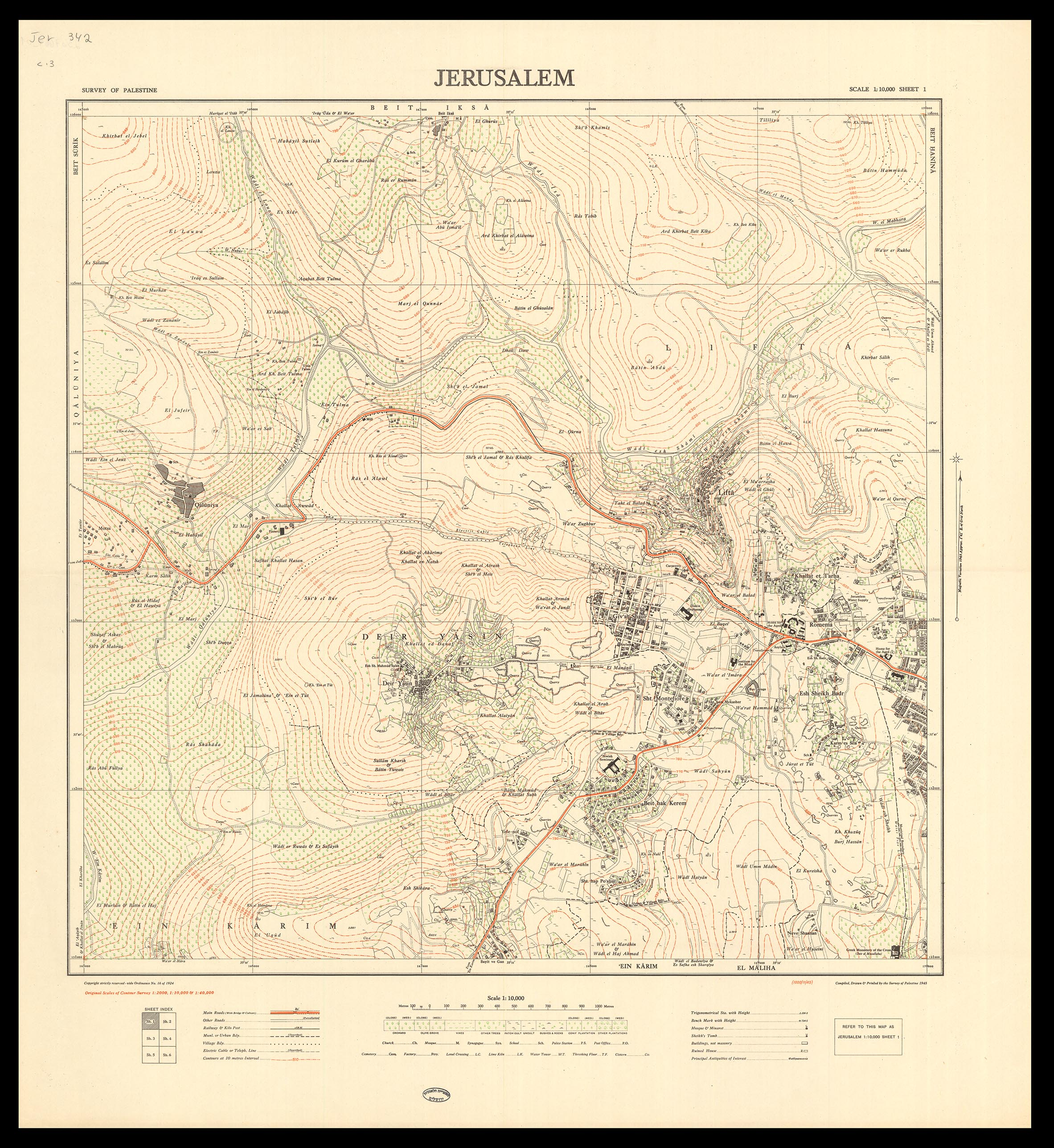 An accurate topographic map of Jerusalem in six sheets. Produced by the Survey of Palestine, 1945-1946.